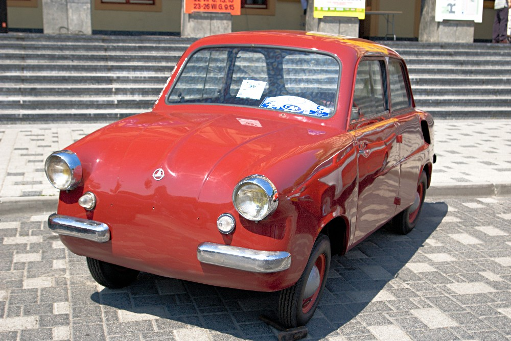 It's a Mikrus MR-300, first Polish small-engined car. Article in Polish Wikipedia regarding this unusual car. It has 300 cm^3, two strokes, 14.5 HP engine. Only 1728 units were build in years 1957-1960 in Mielec aircraft plant. This one was spotted in Mielec old cars fest, organized for 50th birthday of Mikrus.